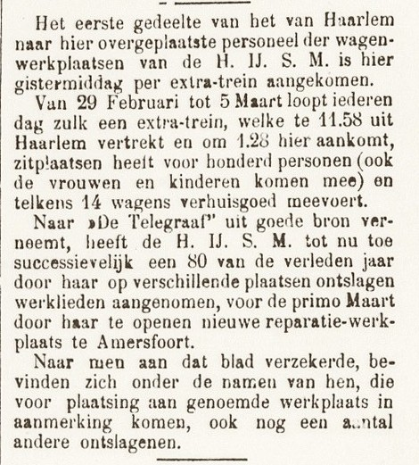 Amersfoortse Courant (Amersfoort Journal) March 1, 1904 with message about Wagenwerkplaats (railway workshop)